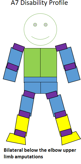 Amputee sport related classification illustration using the ISOD/IWAS classification system.